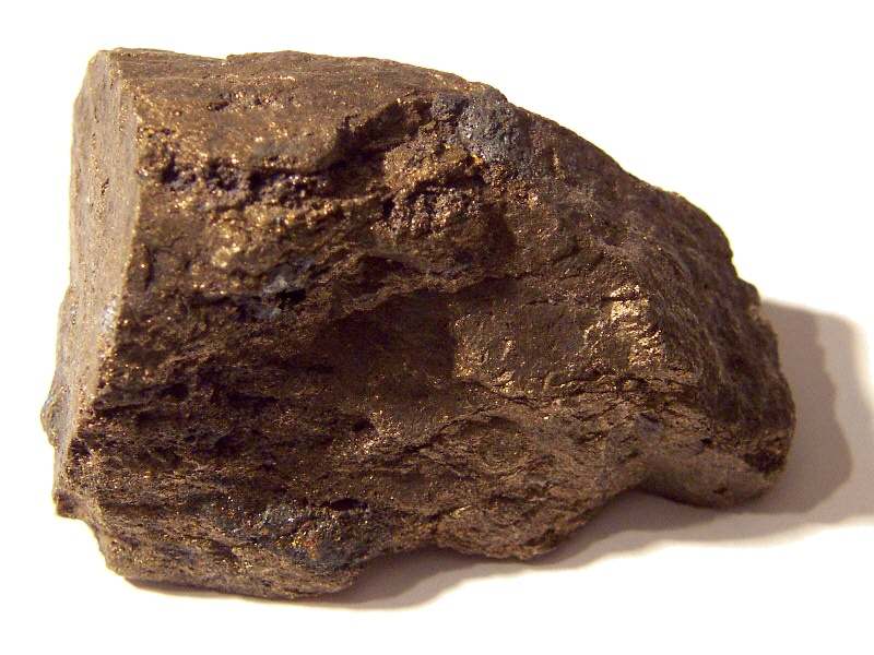 Renierite (Cu,Zn)11Fe4(Ge,As)2S16, germanium mineral. Type locality: mine de Kipushi, province Shaba, Zaire.